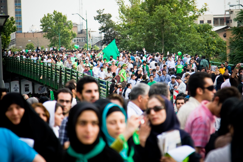 Mousavi supporters, Iranian presidential election, 2009.